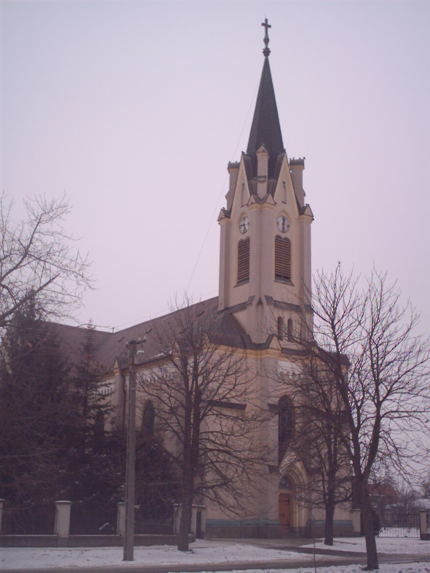 Saint Teresa of Ávila Roman Catholic Church, Csorvás, Hungary